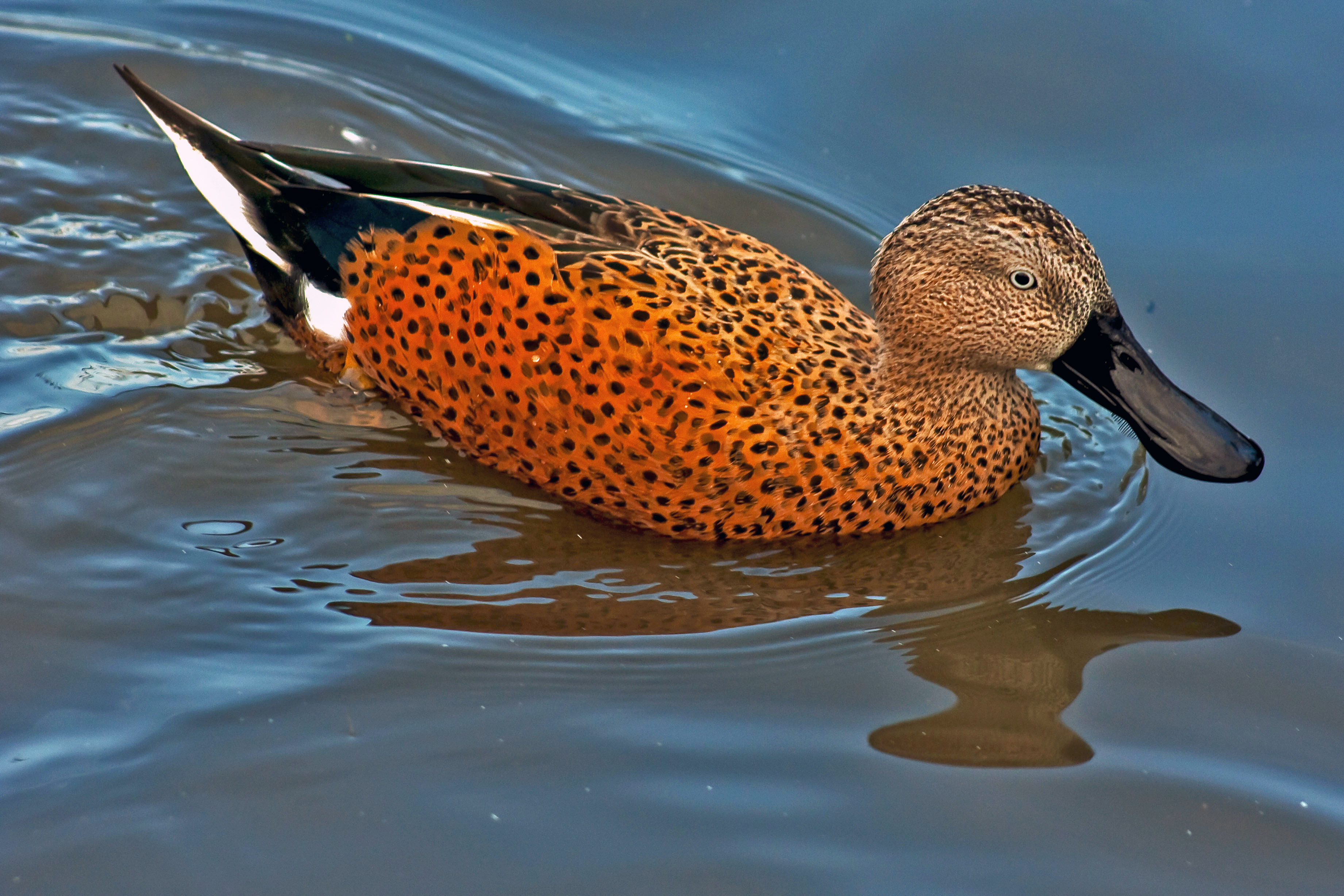 A male Red Shoveler at WWT Slimbridge, a wetland reserve managed by the Wildfowl and Wetlands Trust (a UK charity) at Slimbridge, Gloucestershire, England.